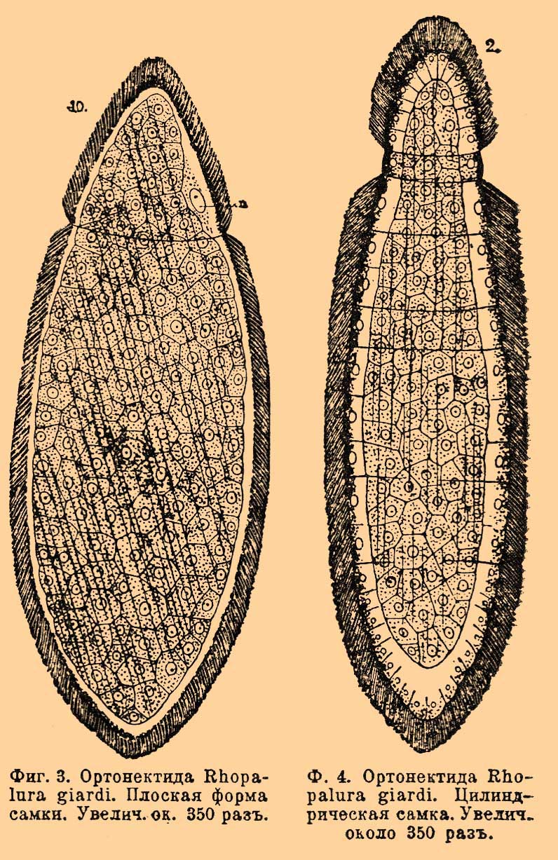 Illustration from Brockhaus and Efron Encyclopedic Dictionary (1890—1907)